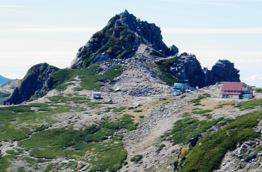 Mount Hoken and mountain huts Hoken Sanso and Tenguso in Kiso Mountains, Japan